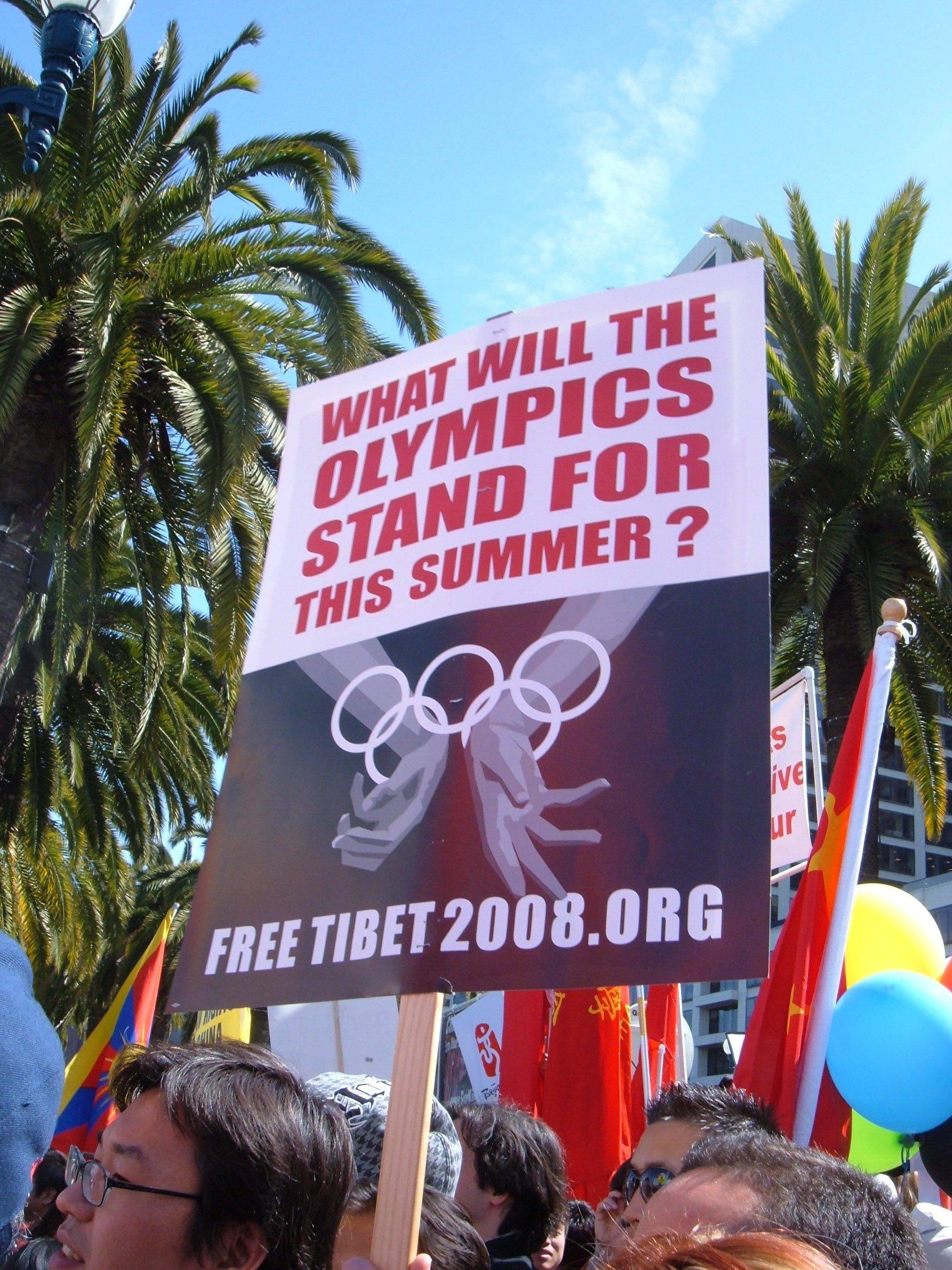 People adjacent to Justin Herman Plaza across from the Ferry Building. For an explanation and additional photos of my experience during the relay please see User:BrokenSphere/Gallery/San Francisco Bay Area/San Francisco/2008 Olympic Torch Relay.